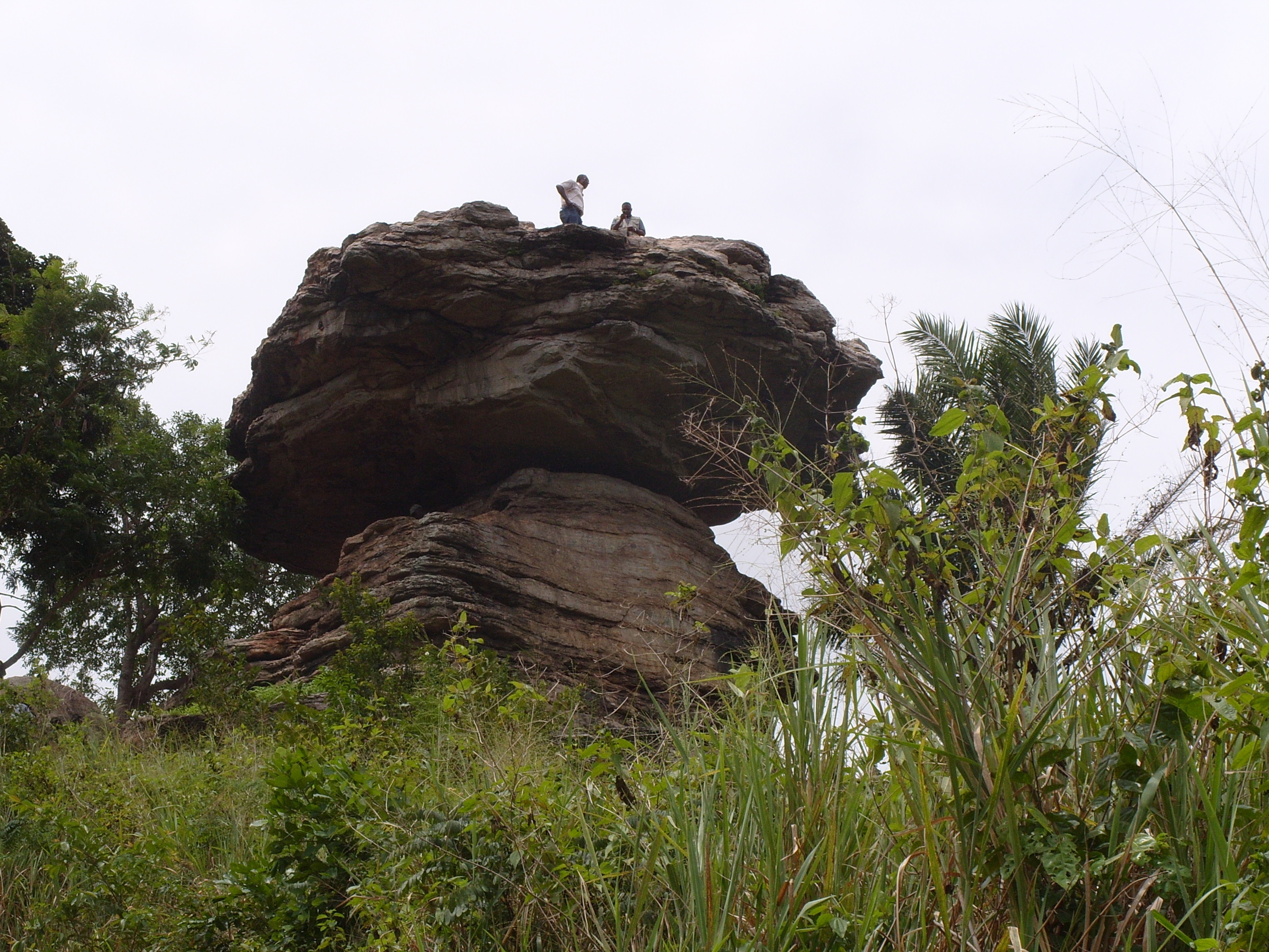 The umbrella rock near the Boti falls close to Koforidua, Ghana.